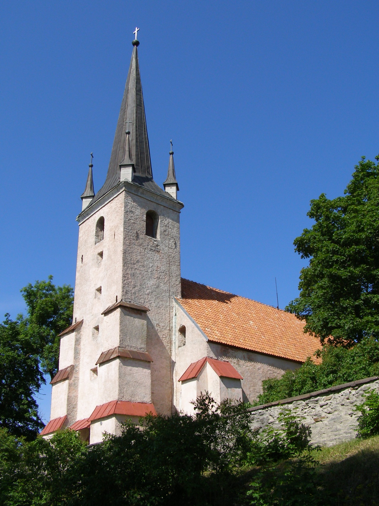 Harju-Madise church in Madise, Harju County, Estonia. My own photo, June 2007.